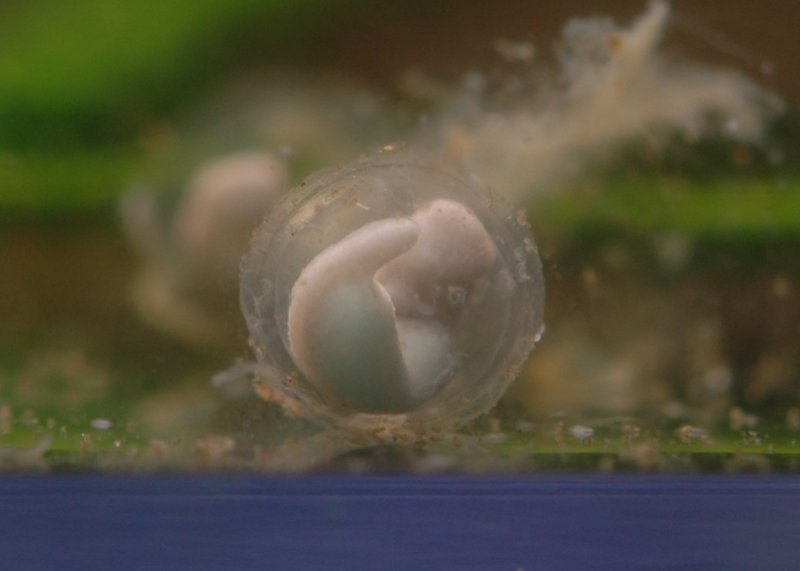 8-day-old Neurergus kaiseri egg. Picture taken in captivity, in France.